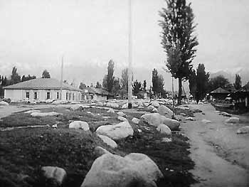 Alma-Ata, Karl Marx Street